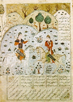 Khosrow and Shirin